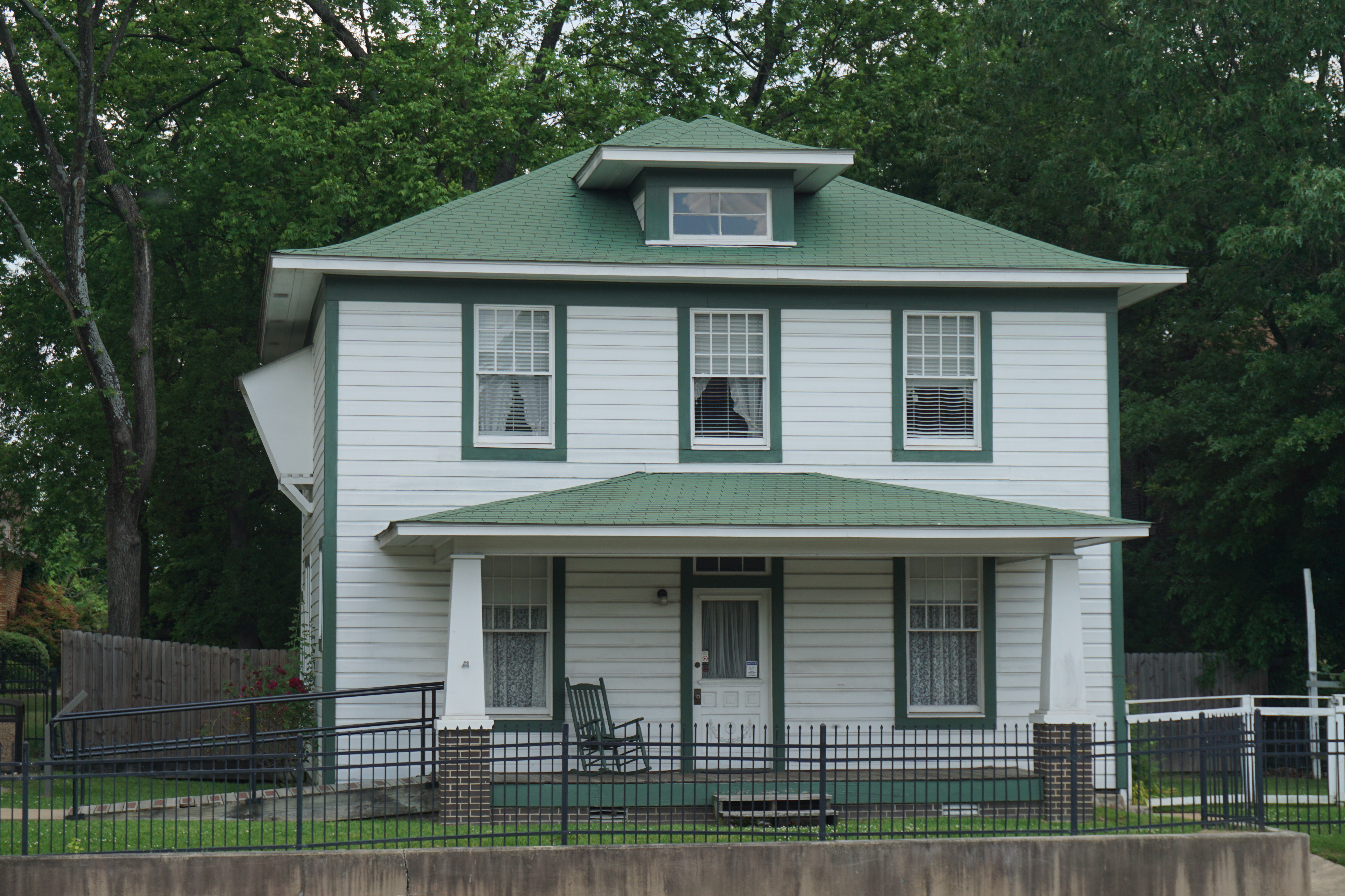 The Bill Clinton Birthplace at the President William Jefferson Clinton Birthplace Home National Historic Site in Hope, Arkansas (United States).